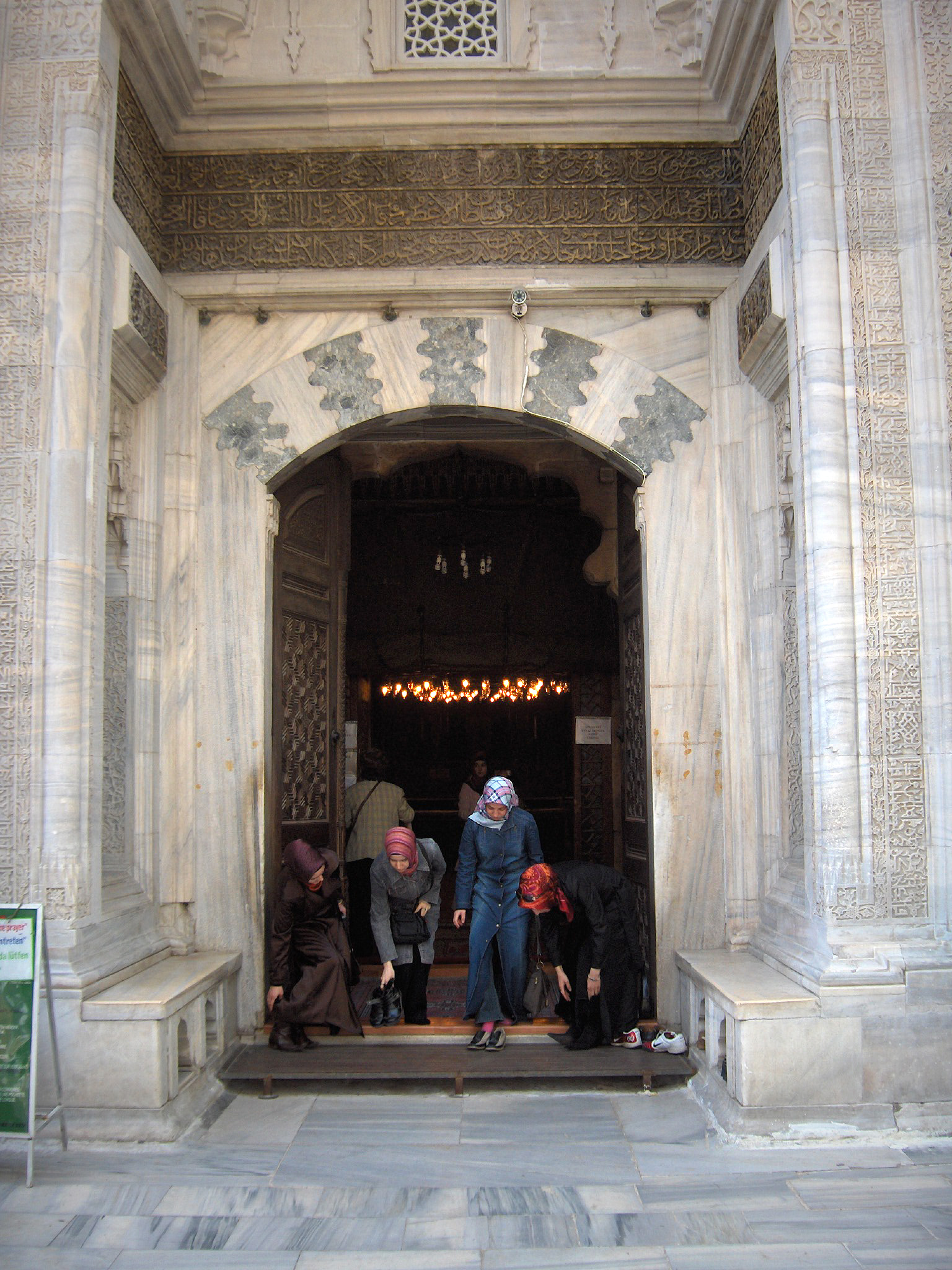 Muqarnas portal of the Yeşil Cami (Green mosque) of Bursa, Turkey